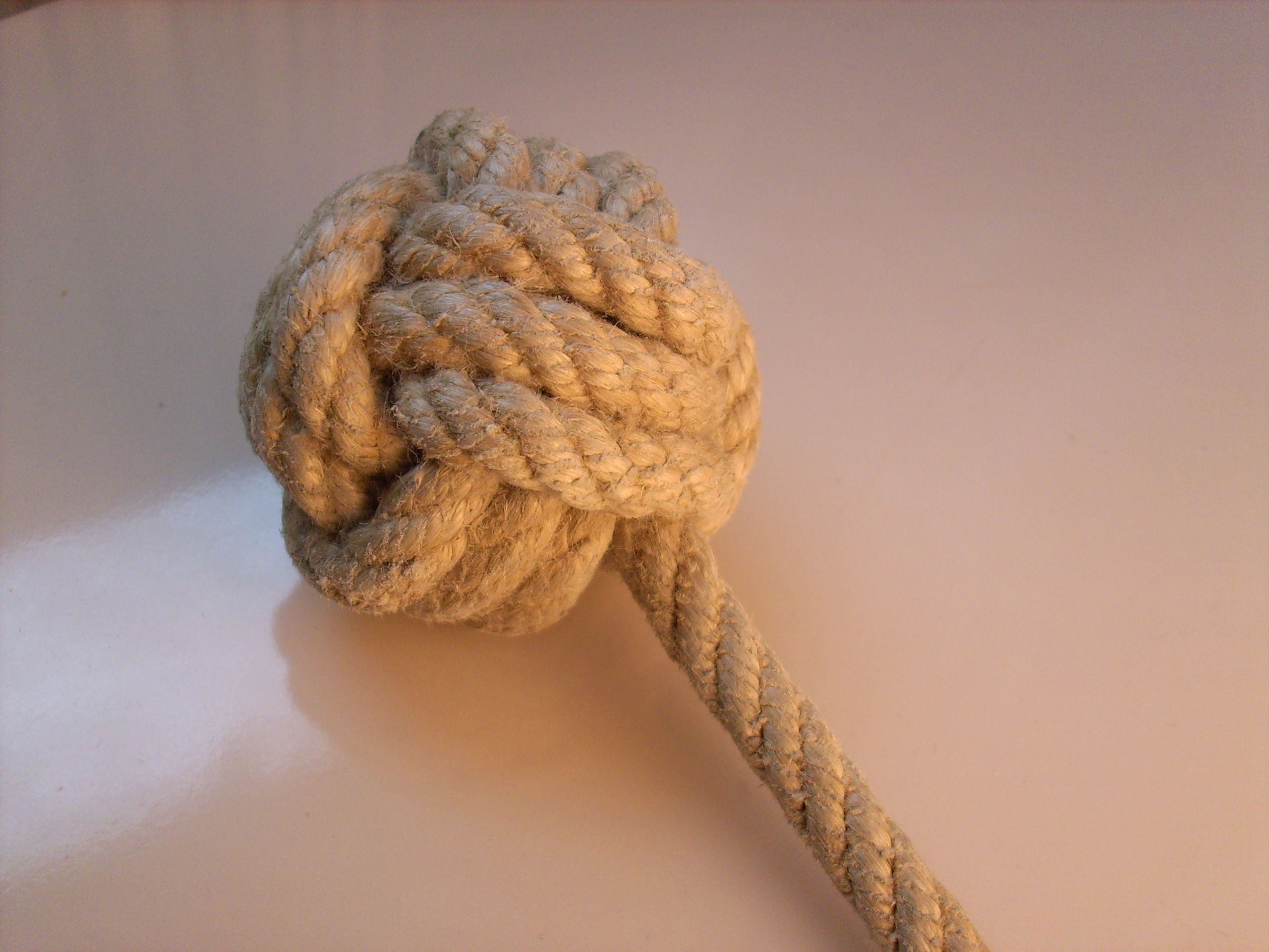 Three strand monkey's fist